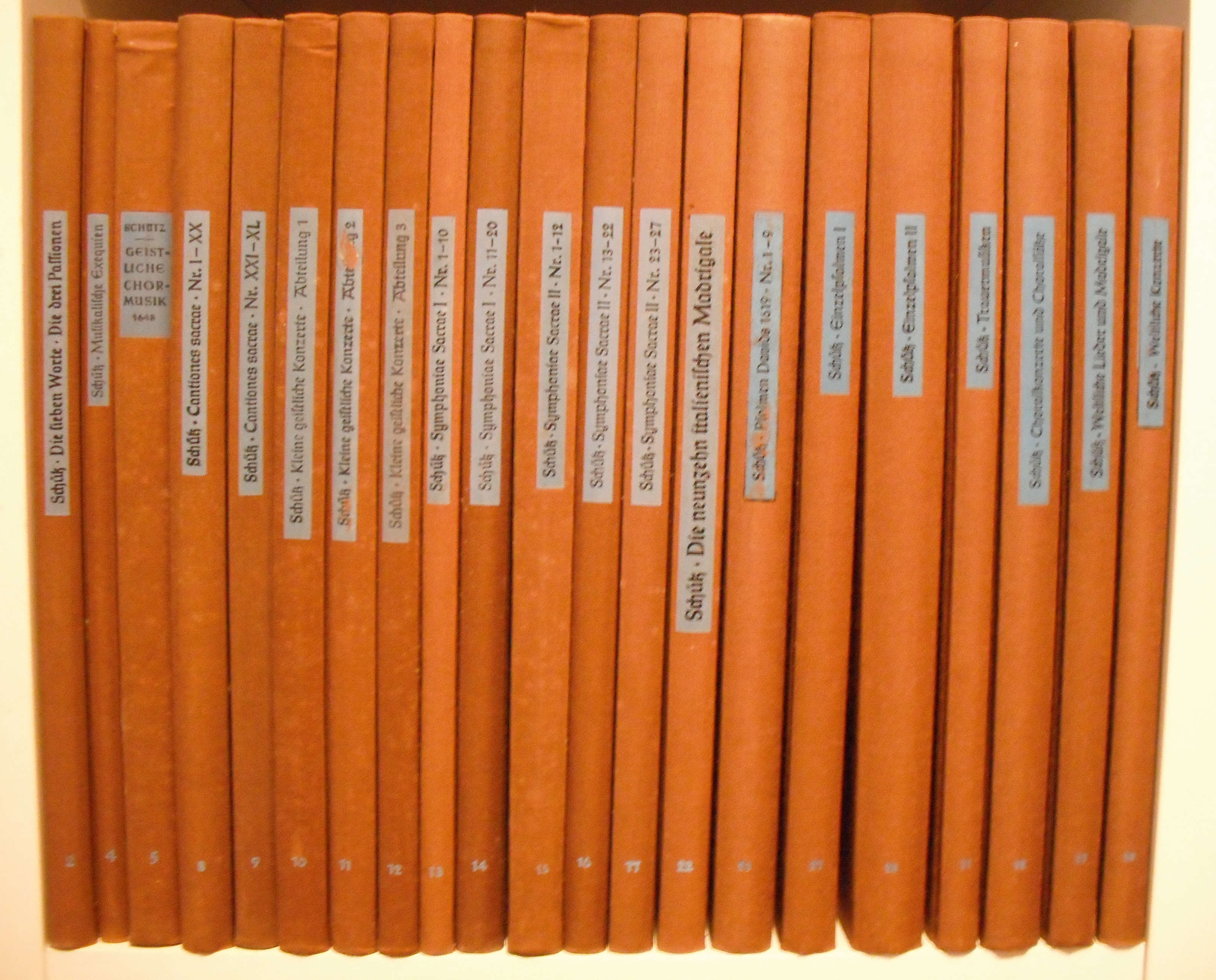 Schütz Gesamtausgabe